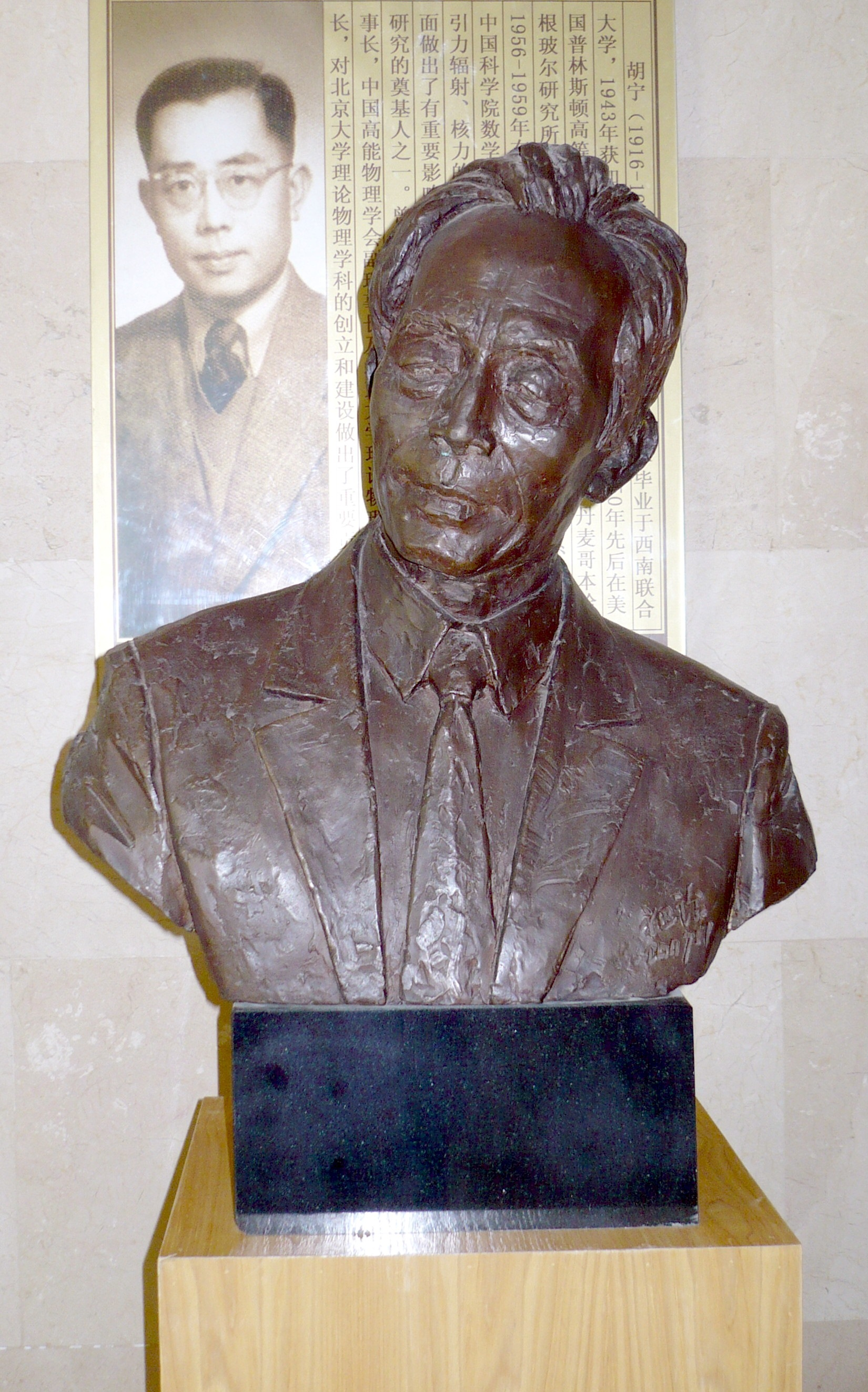 Bronze bust of professor Nu Hing at Department of Physics, Peking University